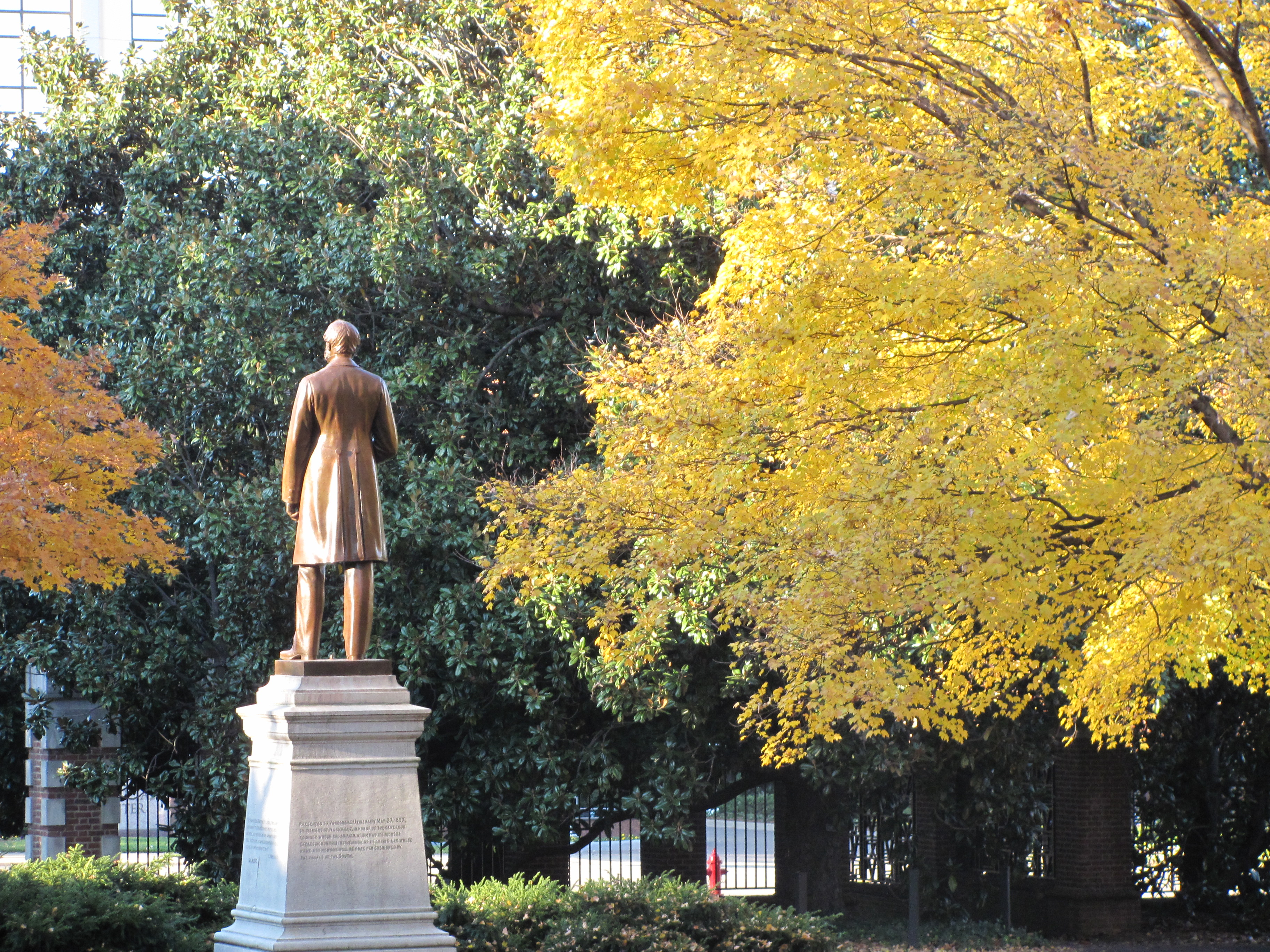 Statue of Cornelius Vanderbilt, designed by Giuseppe Moretti, Vanderbilt University